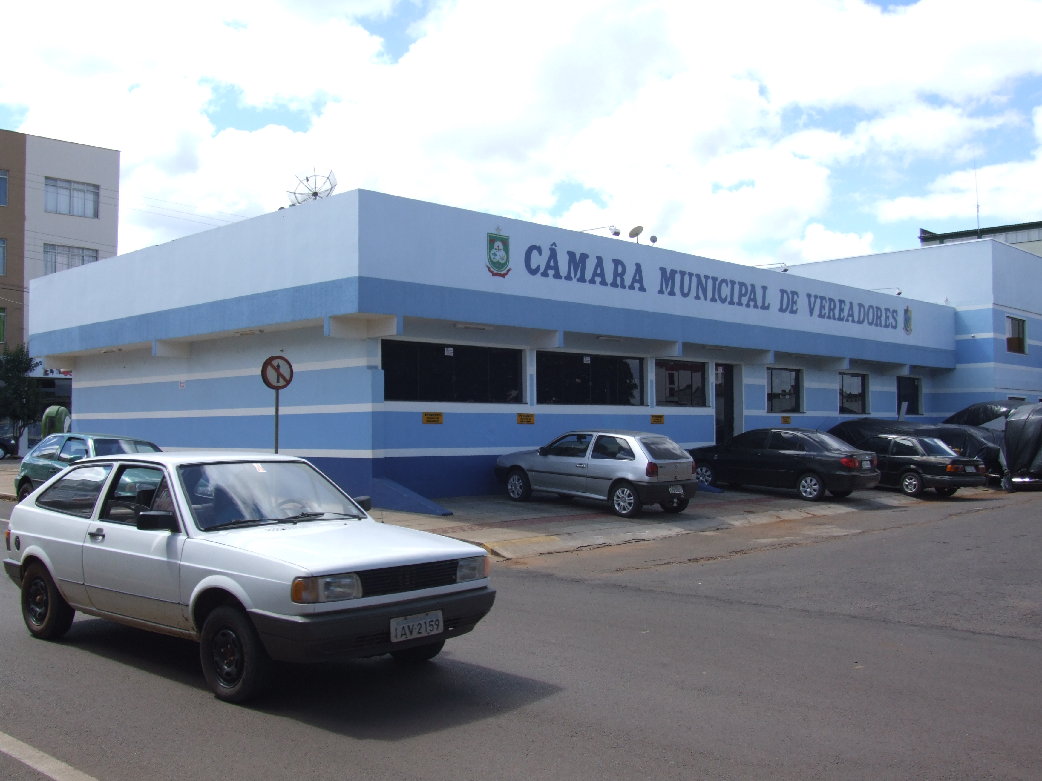 City Council of Campos Novos, the seat of legislative branch of municipality